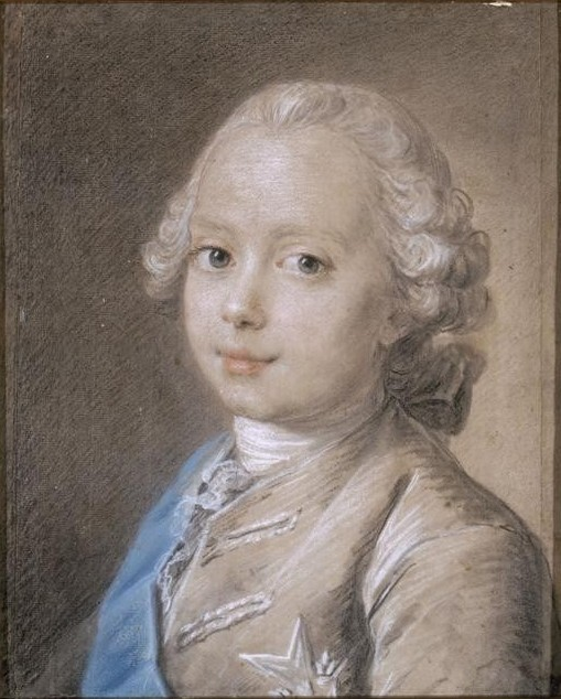 Louis Joseph Xavier de France (1751–1761), Duke of Burgundy, eldest son of Dauphin Louis and Marie Josèphe of Saxony